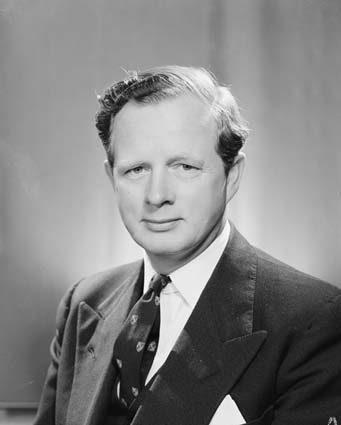 A 1963 black and white portrait of Peter Howson, MHR for Faulkner